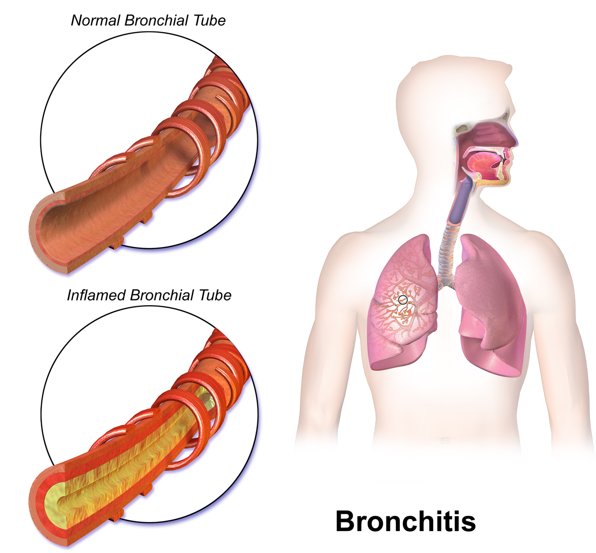 Bronchitis. See a full animation of this medical topic.